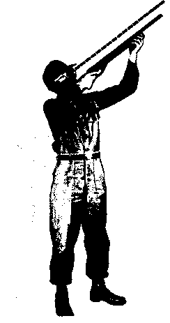 This is figure 10a from page 14 of US Army TT 23-71-1, Principles of a Quick Kill, showing the correct line of sight and stance for learning to shoot arial targets; shown with a soldier holding the sightless Daisy BB gun used in the training program.